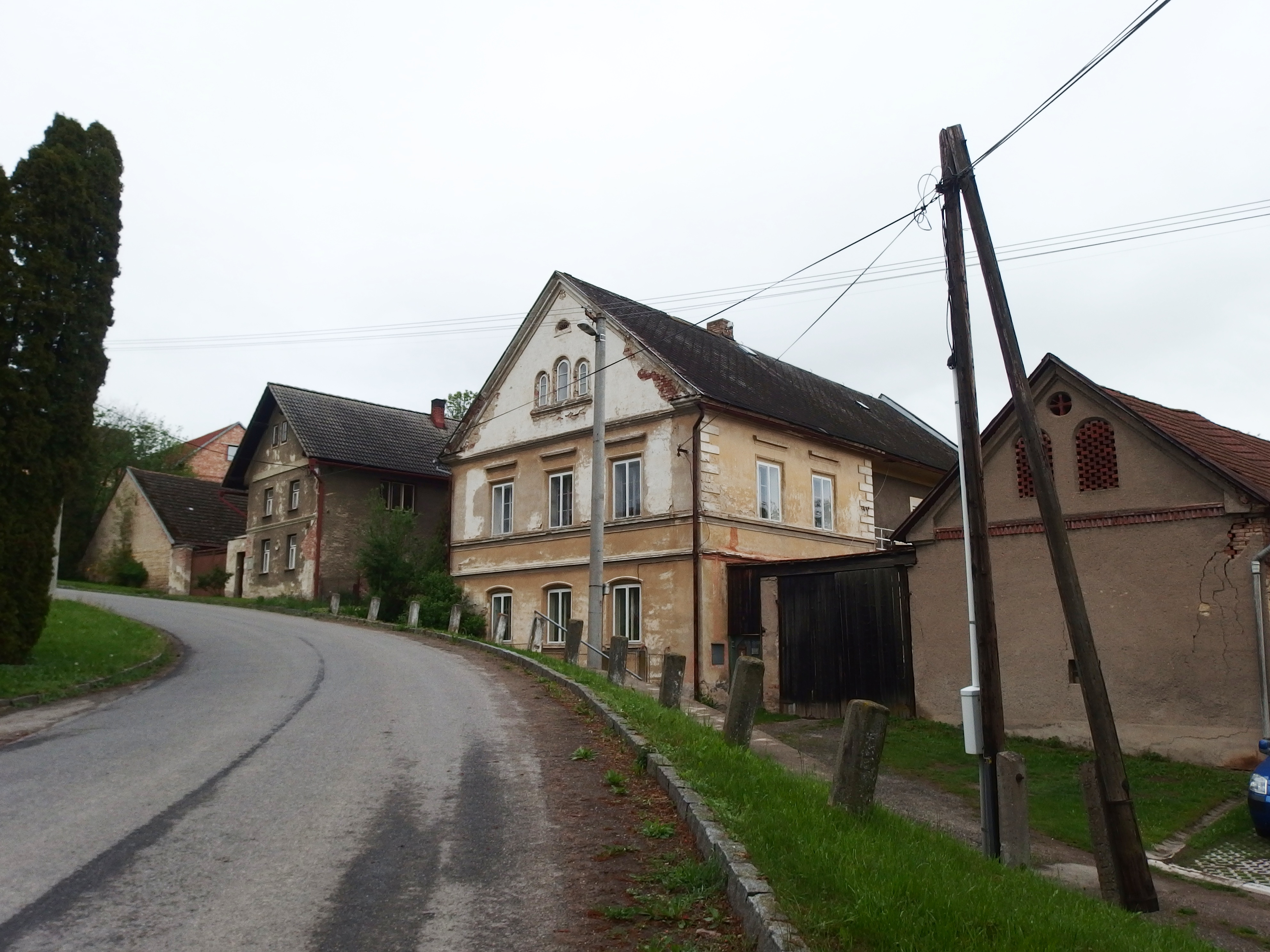 Vysoké Mýto, Ústí nad Orlicí District, Czech Republic, part Brteč.